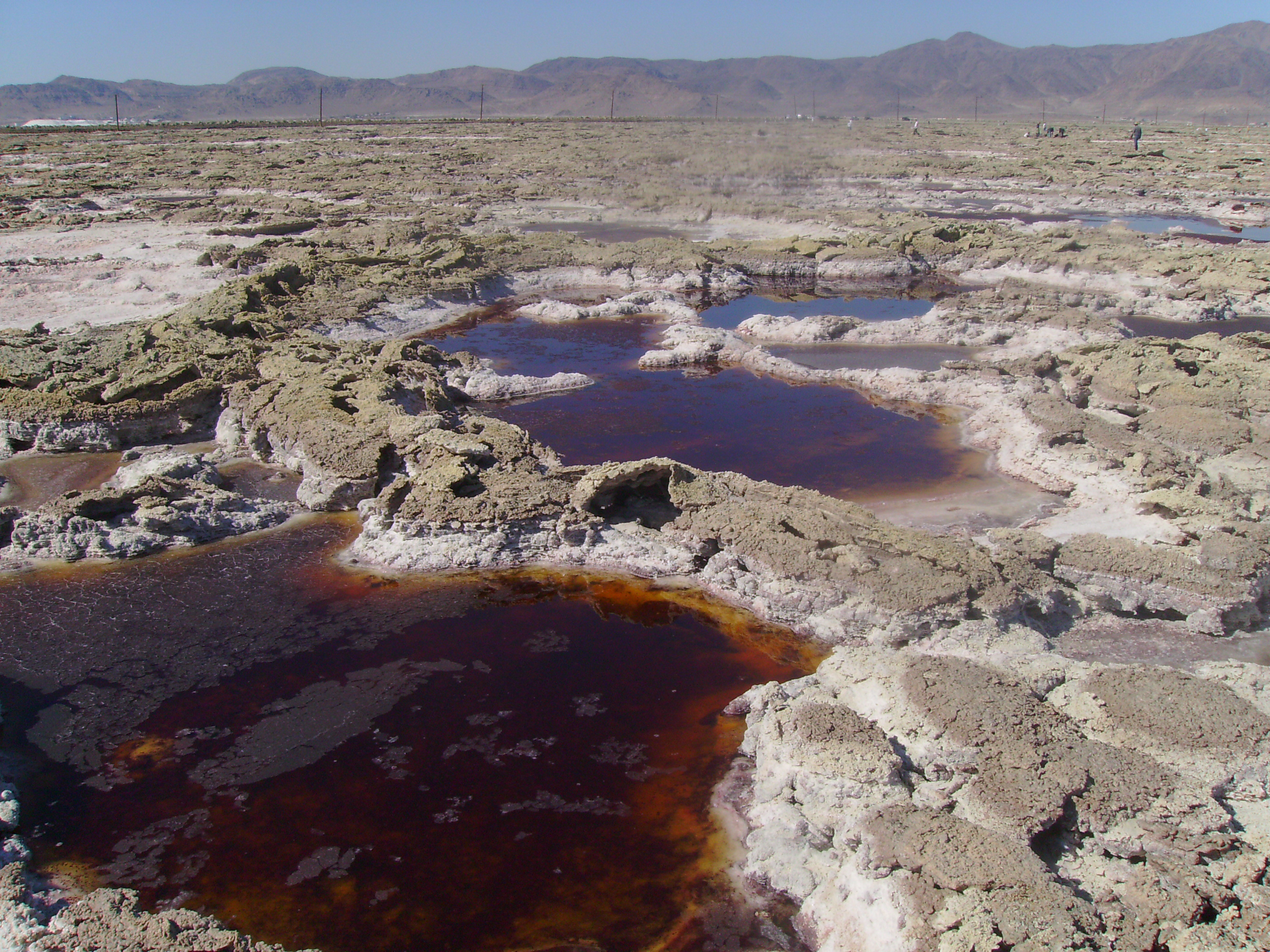 Salt pools tinted red by salt-loving algae in Searles Lake in California.